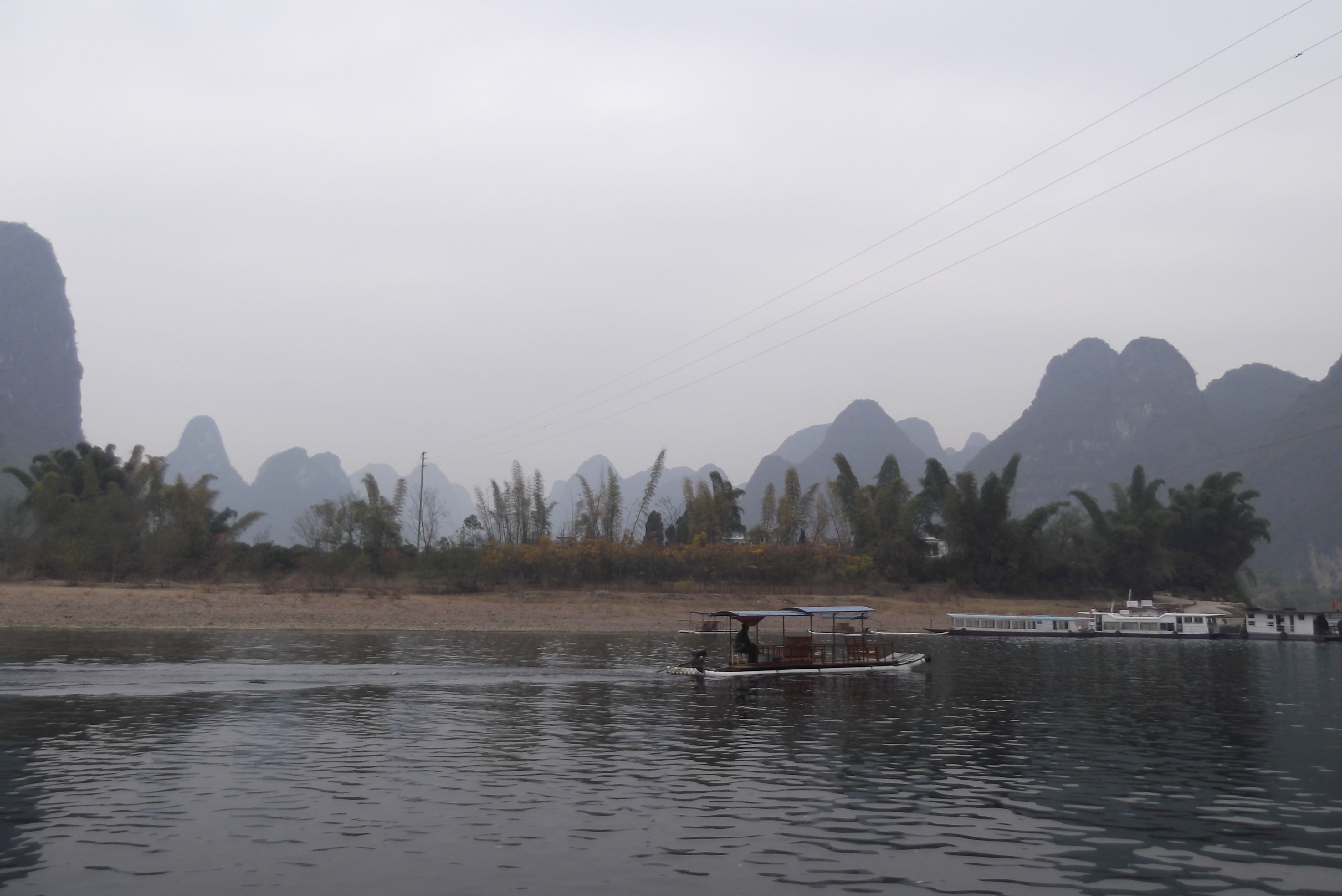 A view of the Li River, in Yangshuo, China